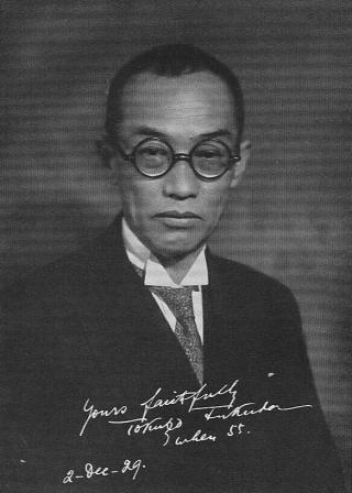 Depicted person: Tokuzō Fukuda – Japanese economist